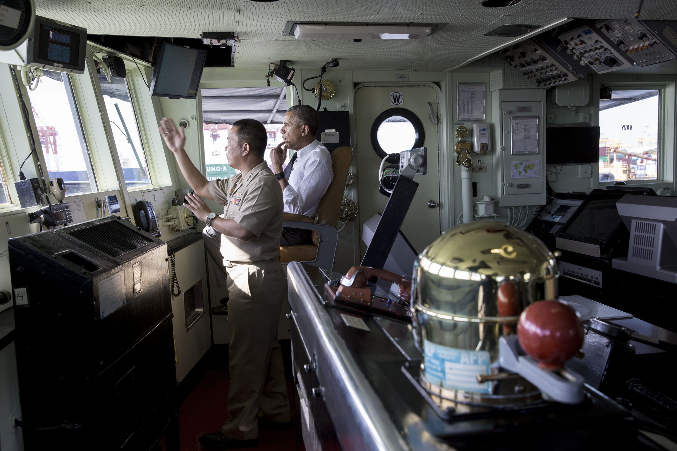 U.S. President Barack Obama aboard the BRP Gregorio del Pilar (PF-15) in Manila, Philippines on November 17, 2015.